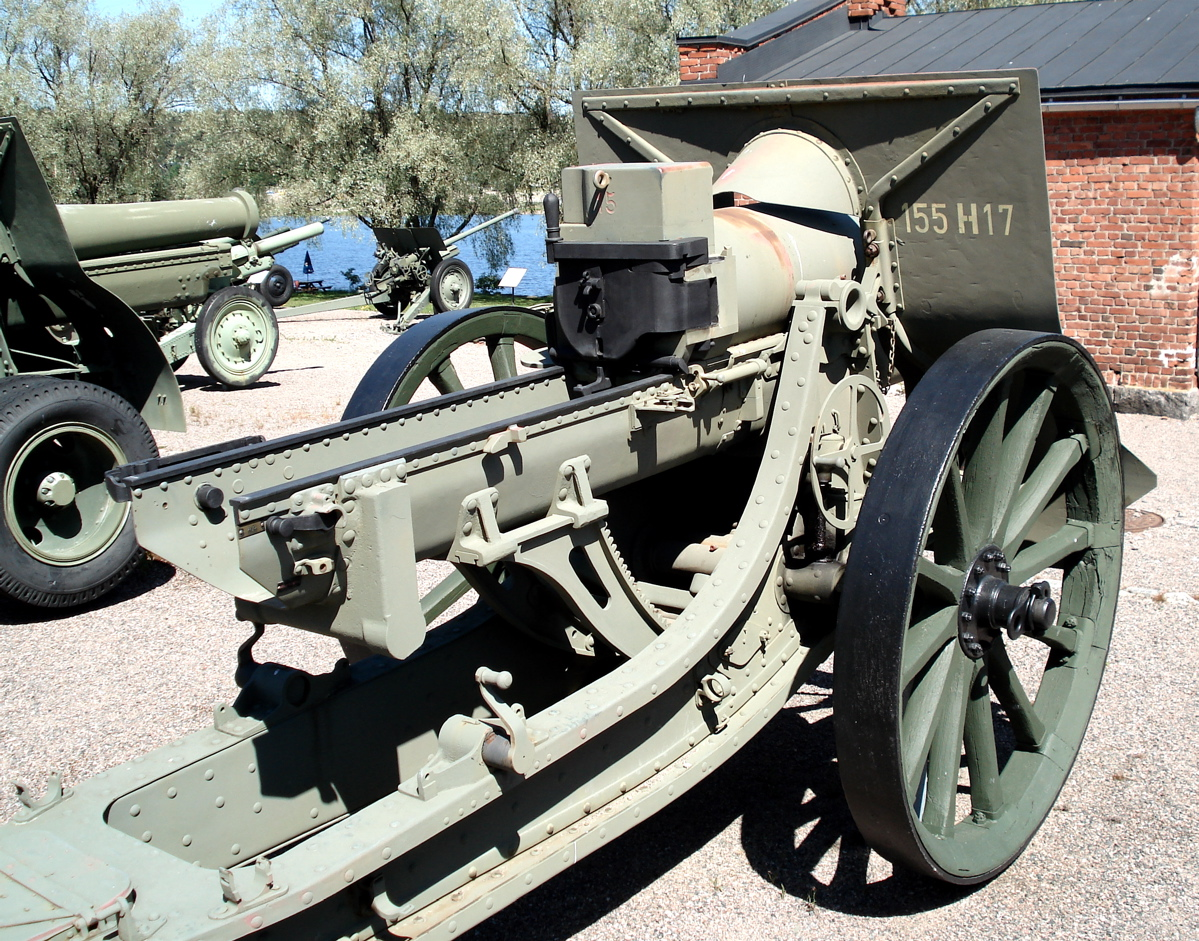 French 155 mm M1917 Schneider howitzer, displayed in Hämeenlinna Artillery Museum. This particular gun was manufactured in 1917. Photo taken on June 18, 2006. Source: Photo by me, User:Balcer.